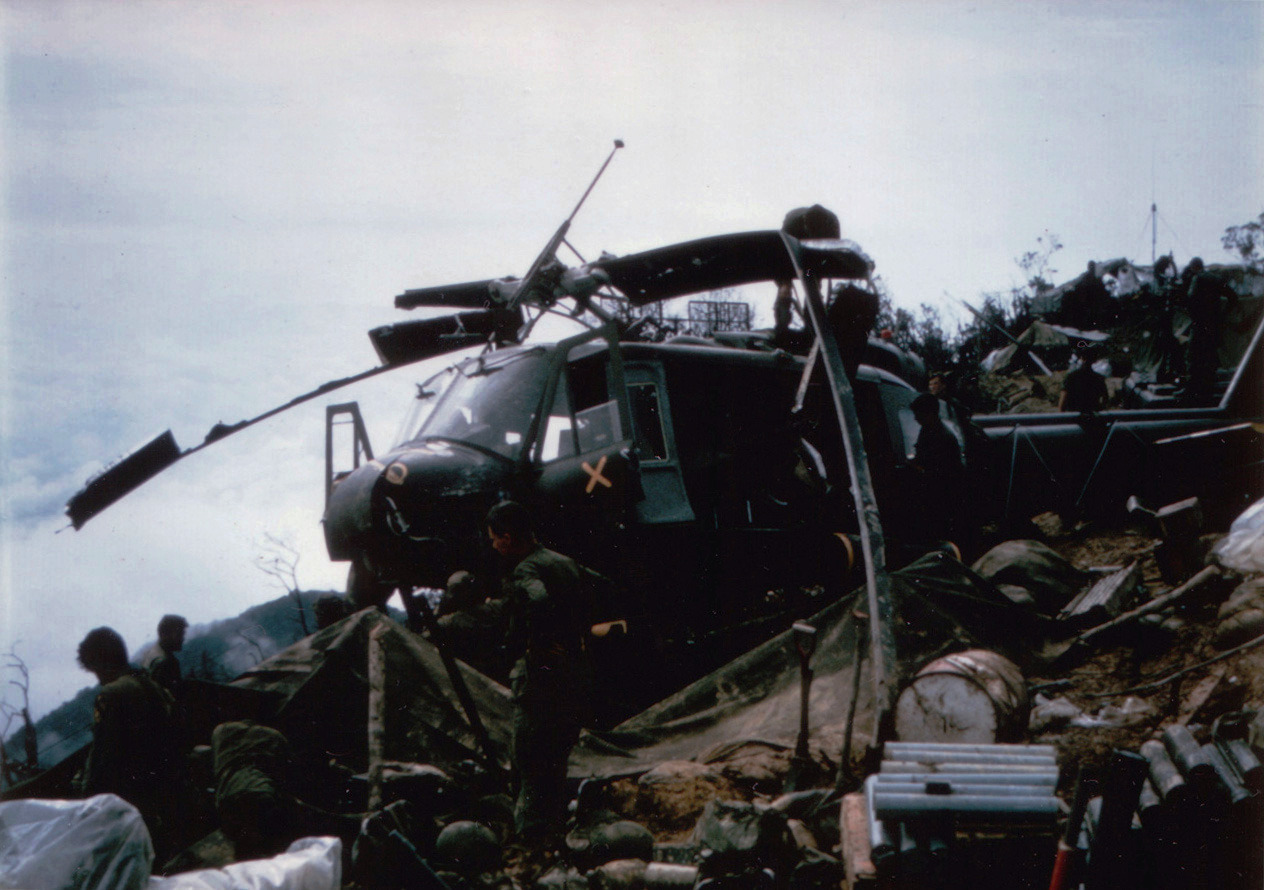 Second crashed helicopter on Signal Hill that killed one man and severely wounded two others.